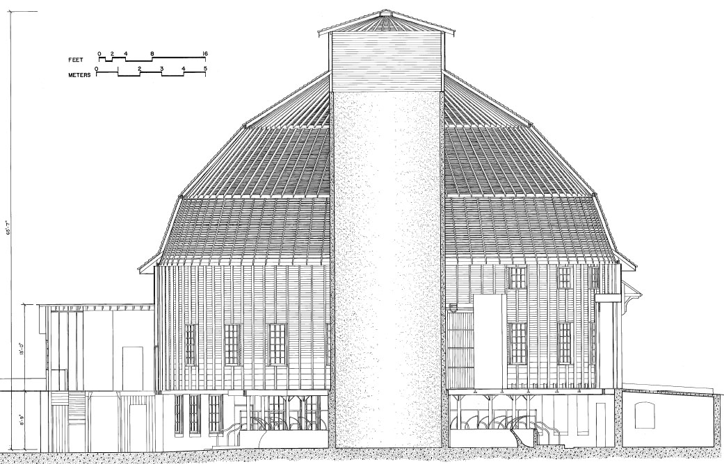 Scale architectural drawing of one of the three round barns located in the University of Illinois Experimental Dairy Farm Historic District.